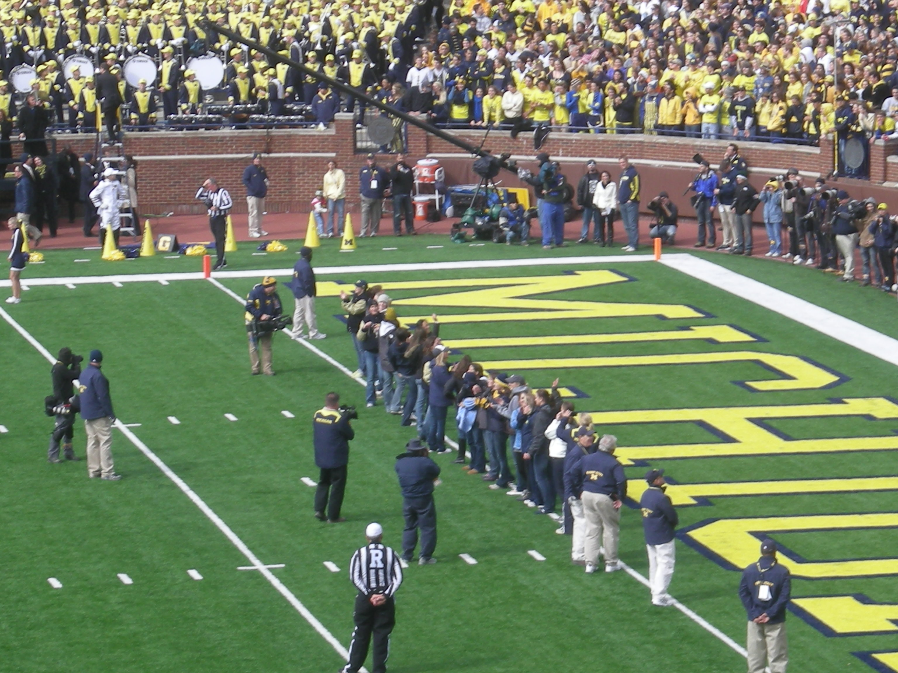 2001 Michigan field hockey team (national champions) honored during the Minnesota Golden Gophers vs. Michigan Wolverines football game at Michigan Stadium in Ann Arbor, Michigan (United States). Michigan won 58–0.